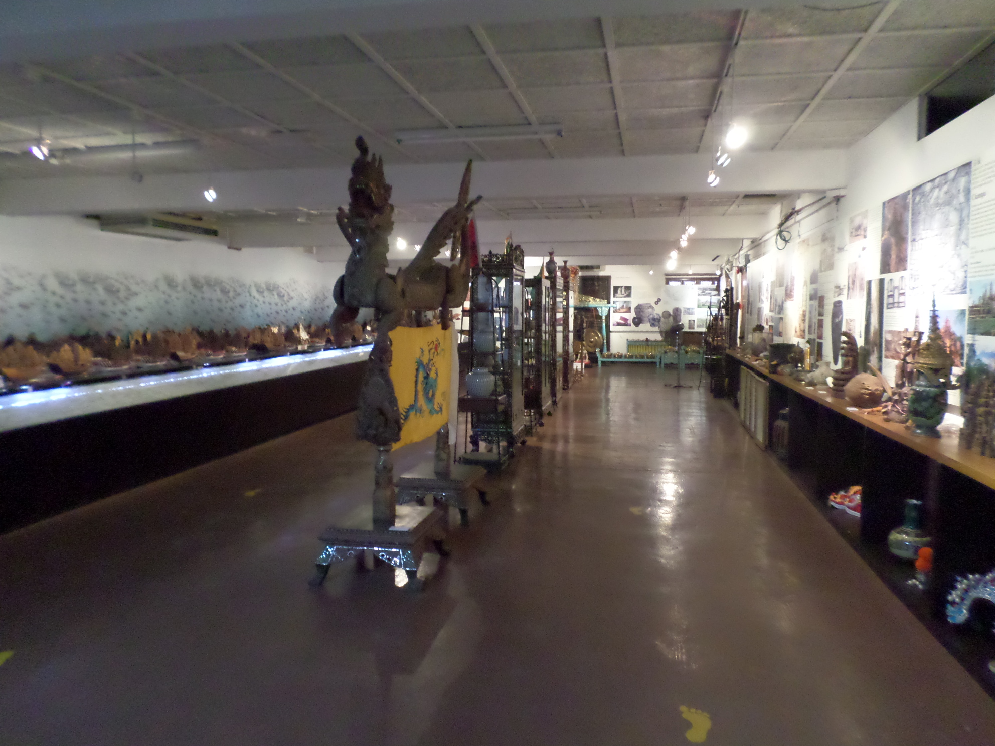 Cheng Ho Cultural Museum, Malacca City, Malacca, MalaysiaBahasa Melayu: Muzium Budaya Cheng Ho, Bandaraya Melaka, Melaka, Malaysia